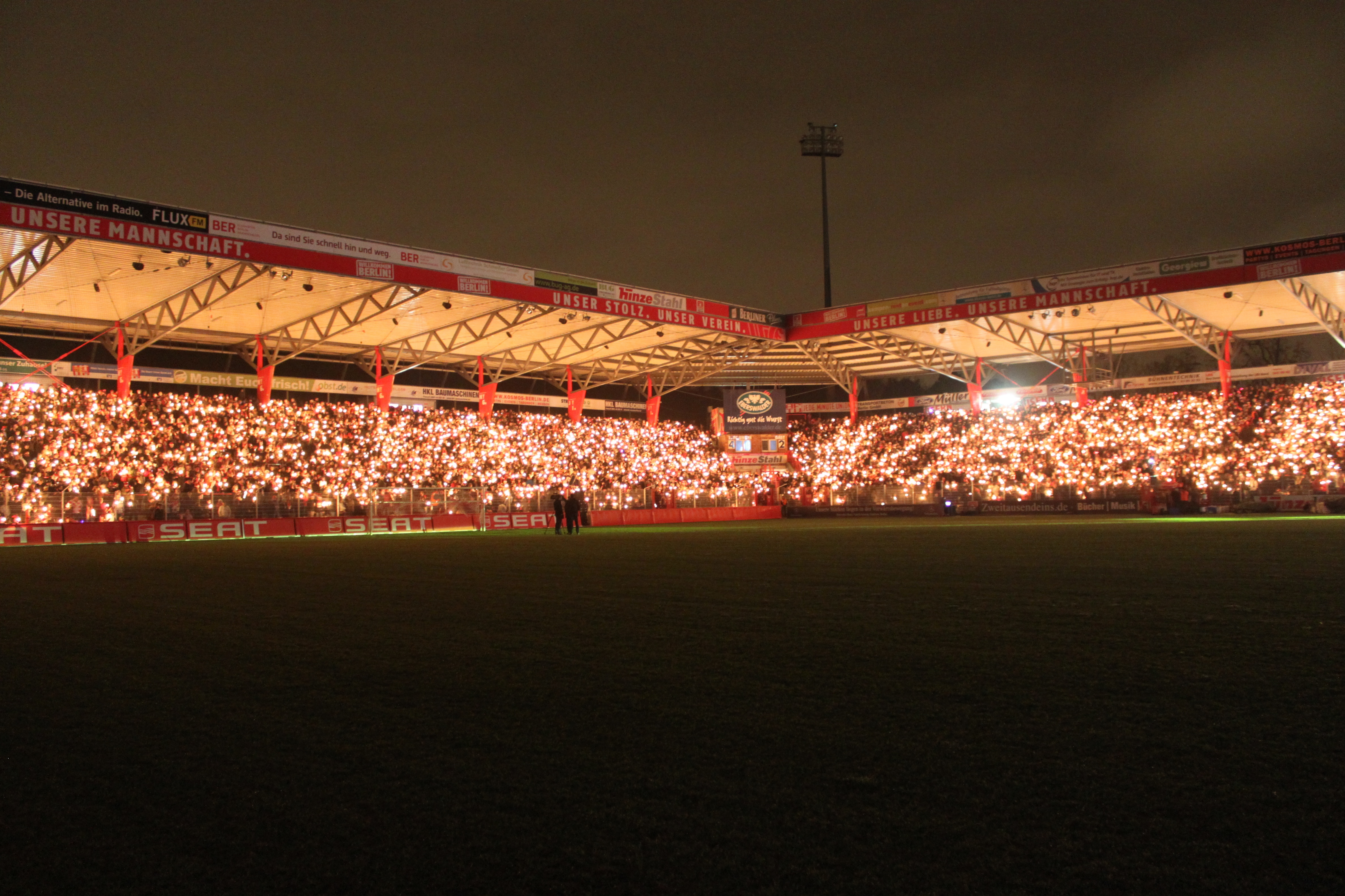 1. FC Union Berlin celebrates Christmas Carols in 2011